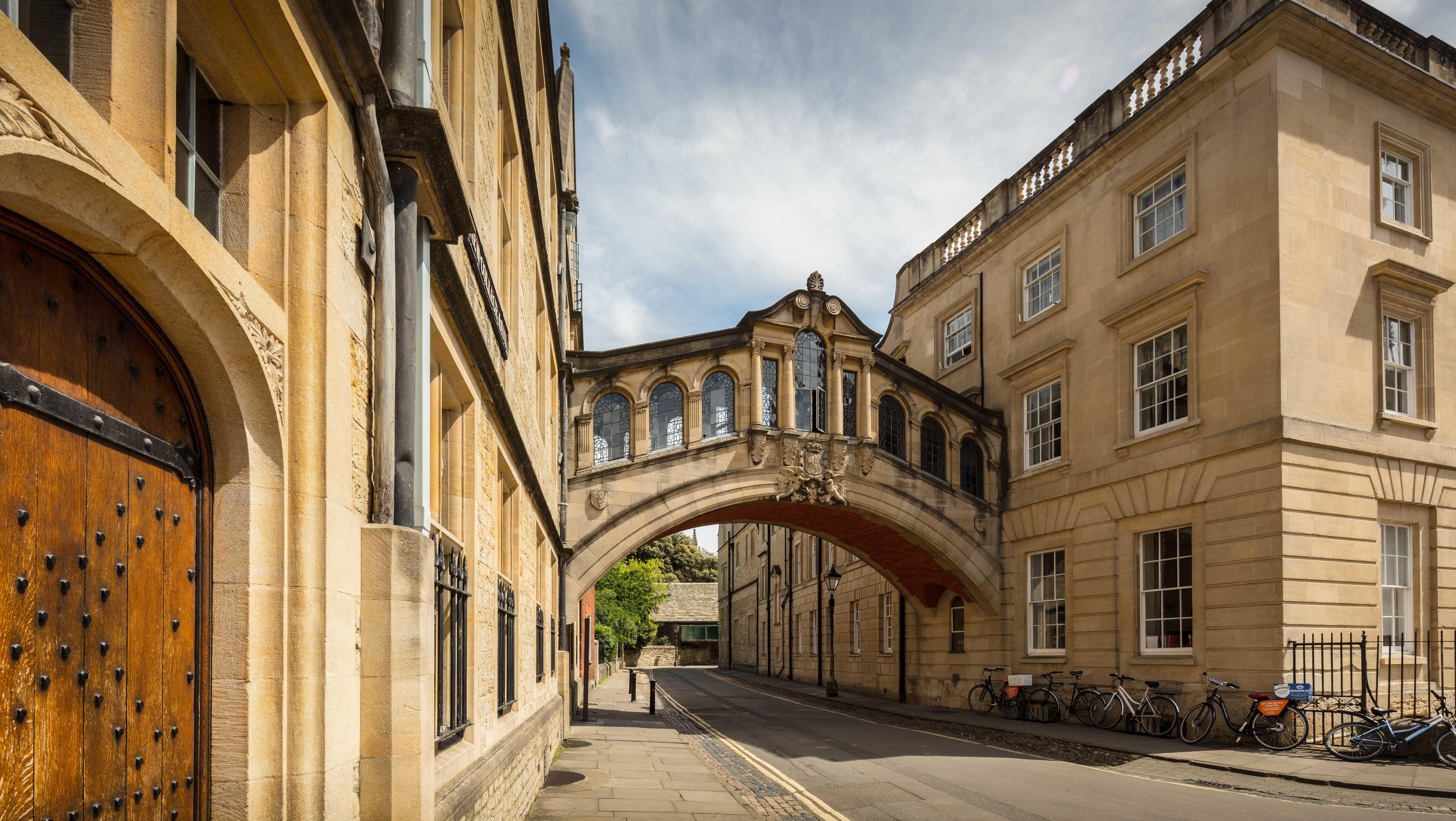 Here is a photograph taken from The Bridge of Sighs (Hertford Bridge) in the University of Oxford. Located in Oxford, Oxfordshire, England, UK.